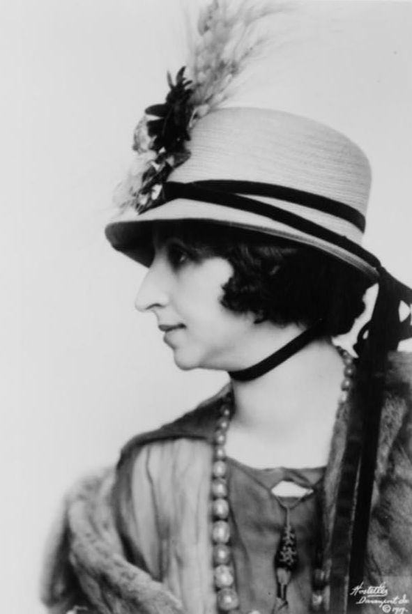 Amelita Galli-Curci, head-and-shoulders portrait, facing left